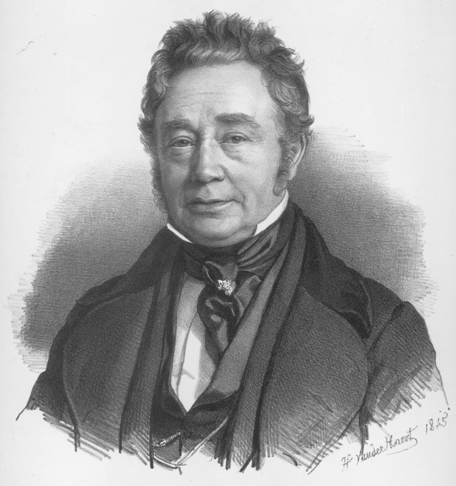 Belgian musician Martin-Joseph Mengal (1784-1851)